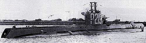 Image provided by the kind permission of the Barrow-in-Furness Submariners Association website